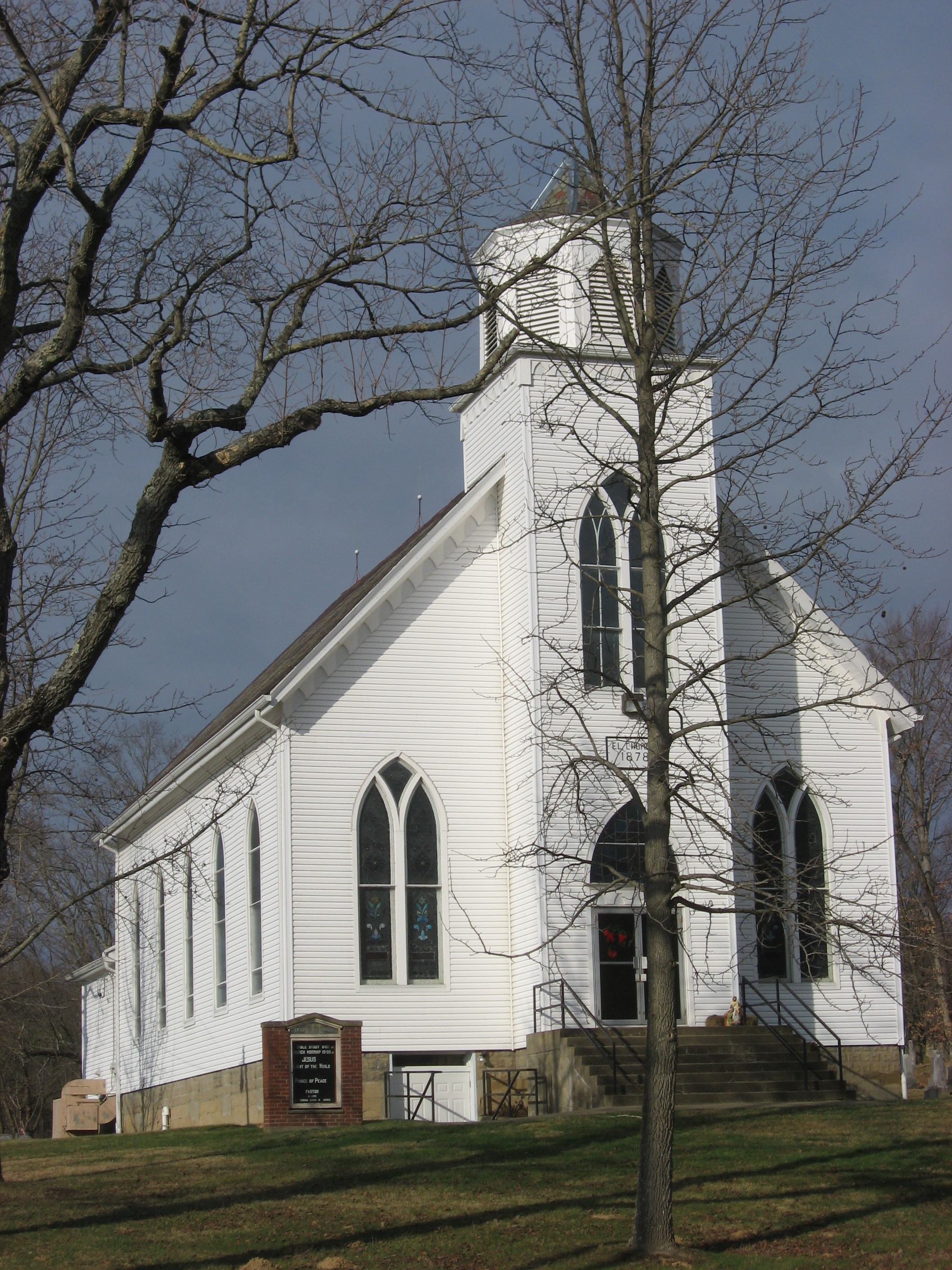 Front and southern side of St. John's Evangelical Lutheran Church, located at 6575 State Route 555 south of Stovertown in Brush Creek Township, Muskingum County, Ohio, United States. Built in 1878, it is listed on the National Register of Historic Places.